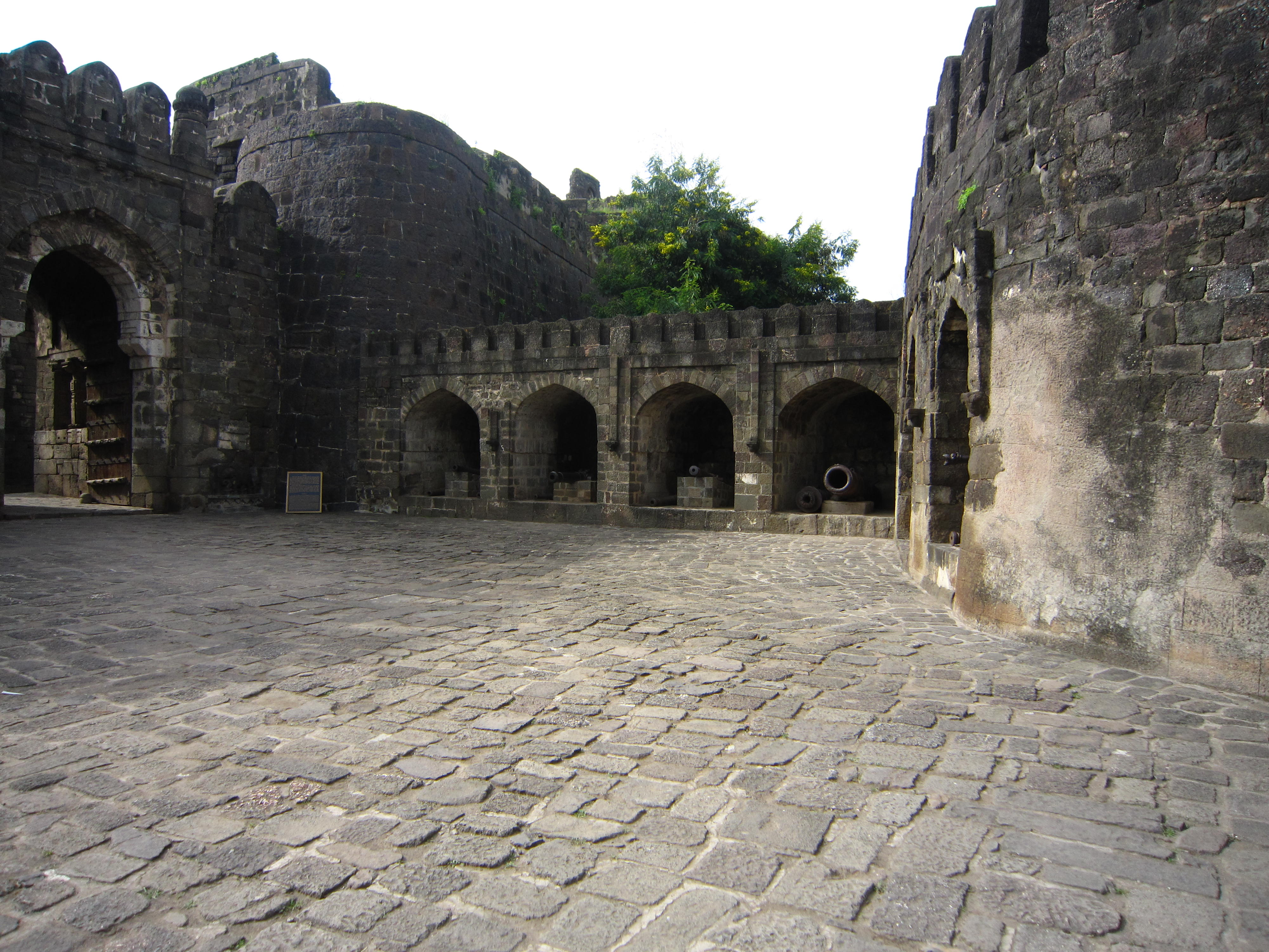 Front entrance of Daulatabad fort with canons.